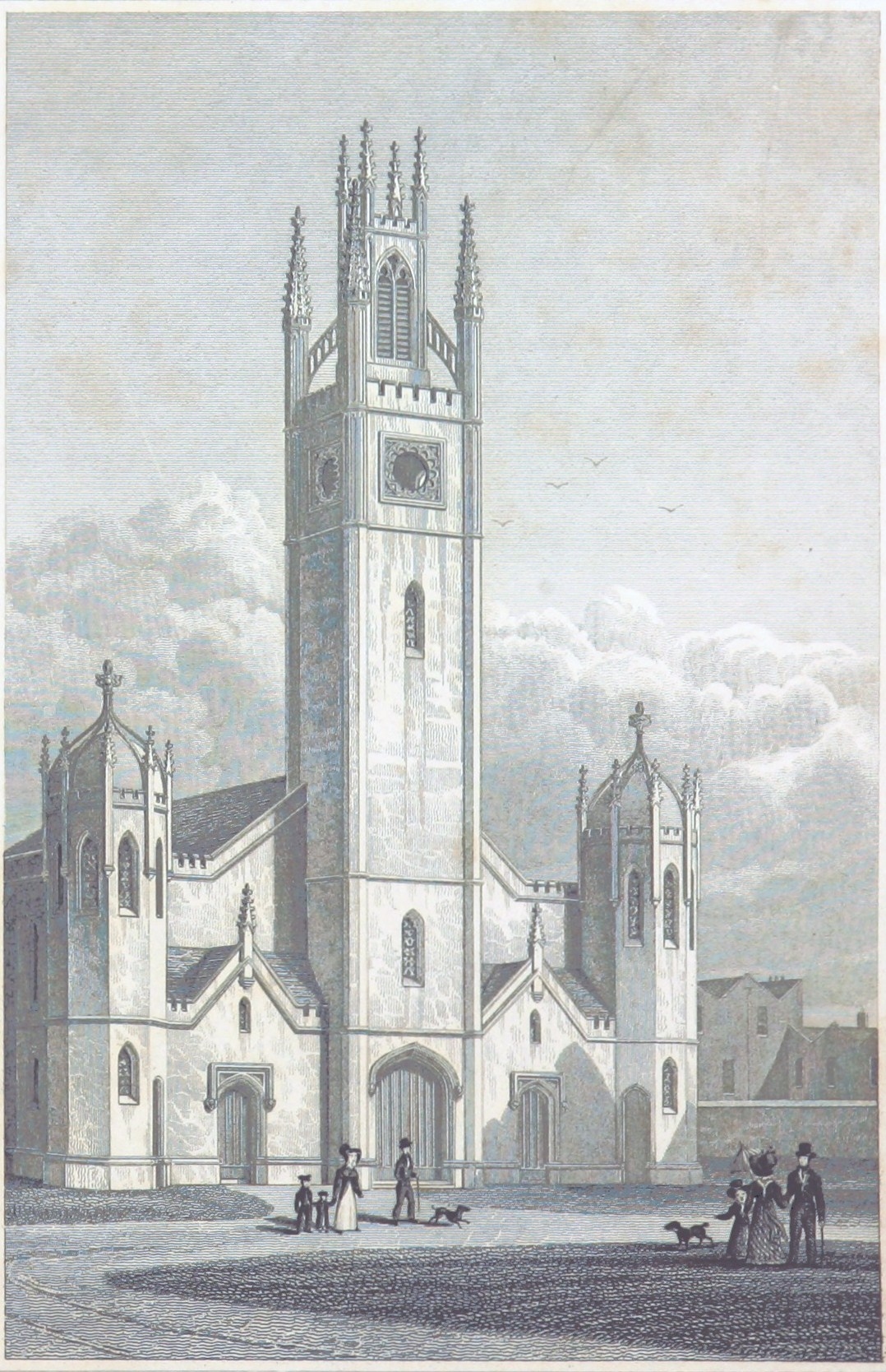 The west front of the parish church of St Mary, Haggerston, London. This engraving after Thomas Hosmer Shepherd was published in TH Shepherd and James Elmes' Metropolitan Improvements (1828).